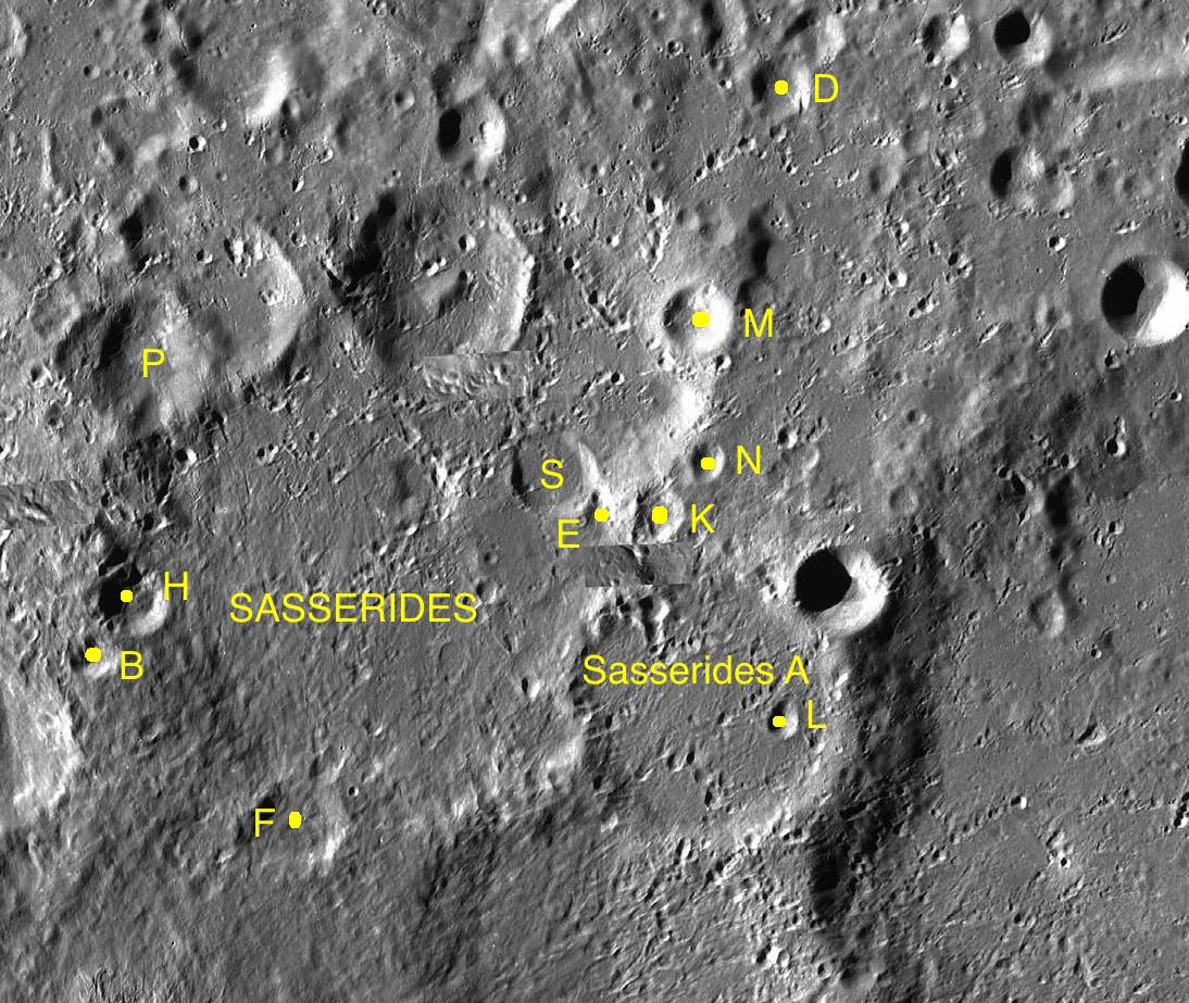 Part of the chart LAC-112 used for the presentation